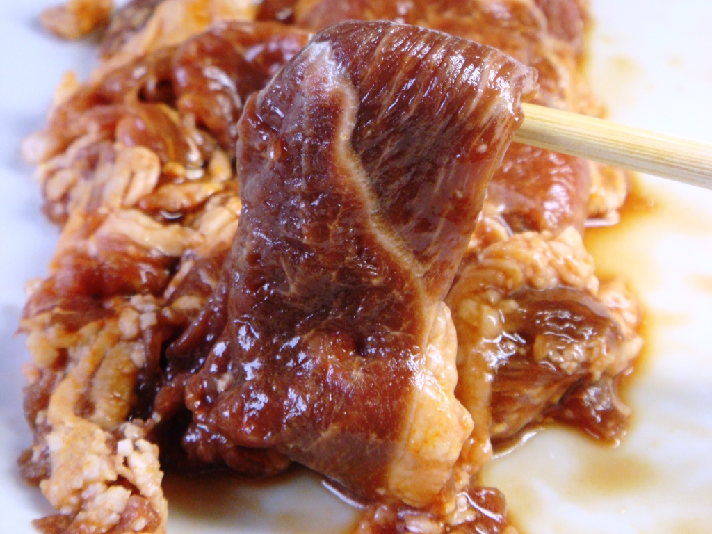 Seasoned Mutton Jingisukan